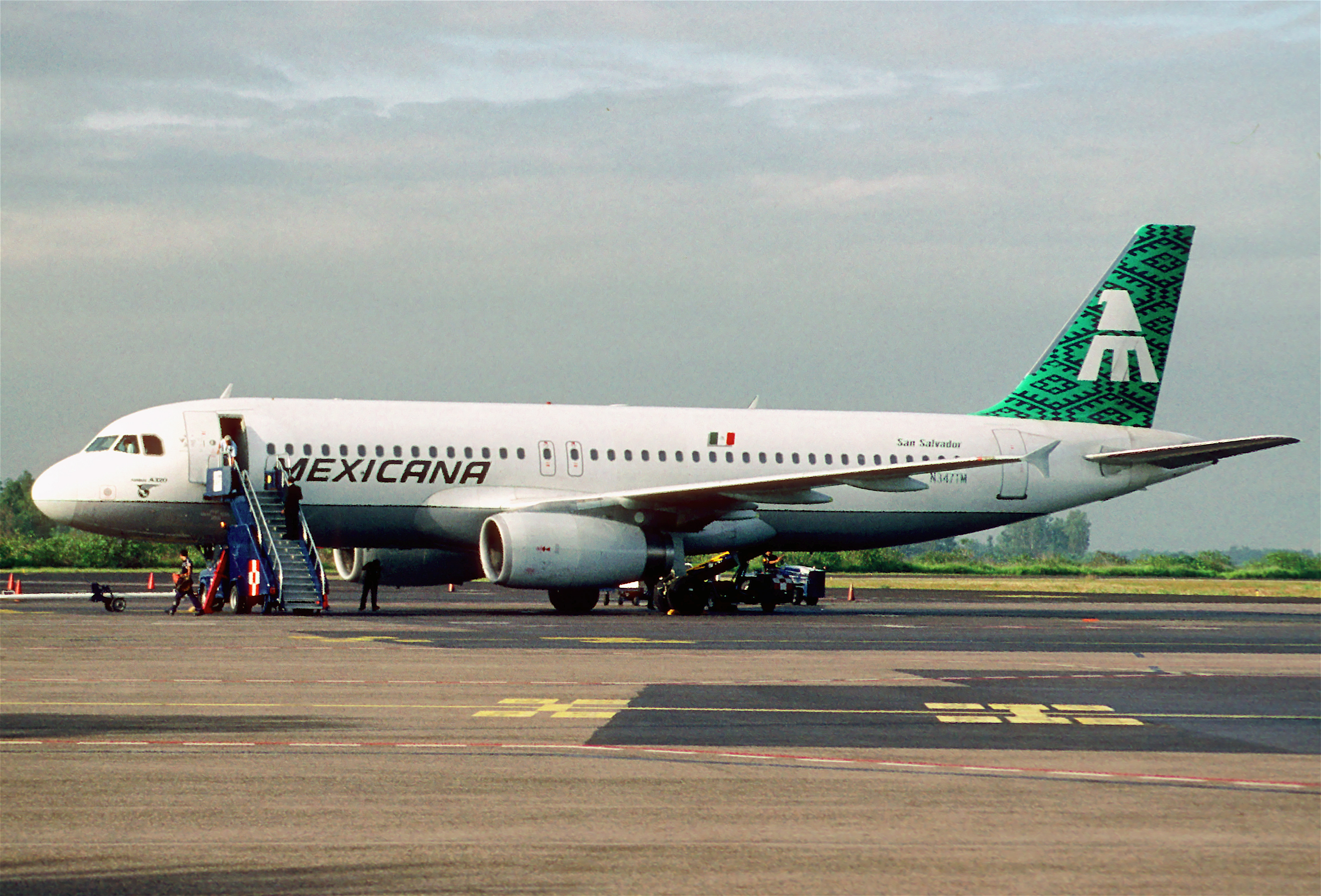 First flight: June 23, 1992...(c/n 347) 23/06/1992 Airbus Industrie F-WQAX 07/04/1995 Transasia B-22307 08/12/1998 Transmeridian N347TM 16/05/1999 Aeropostal N347TM 22/09/1999 Transmeridian N347TM 28/09/2001 Mexicana N347TM ceased operations on August 28, 2010...